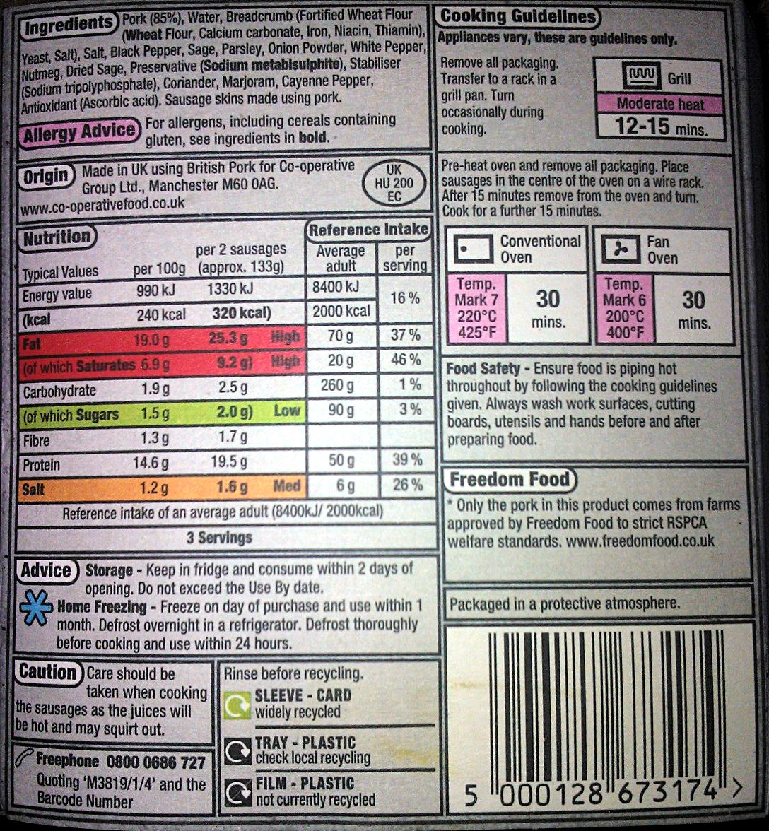 Nutritional label from a pack of The Co-operative Food Truly Irresistable Cumberland Pork Sausages